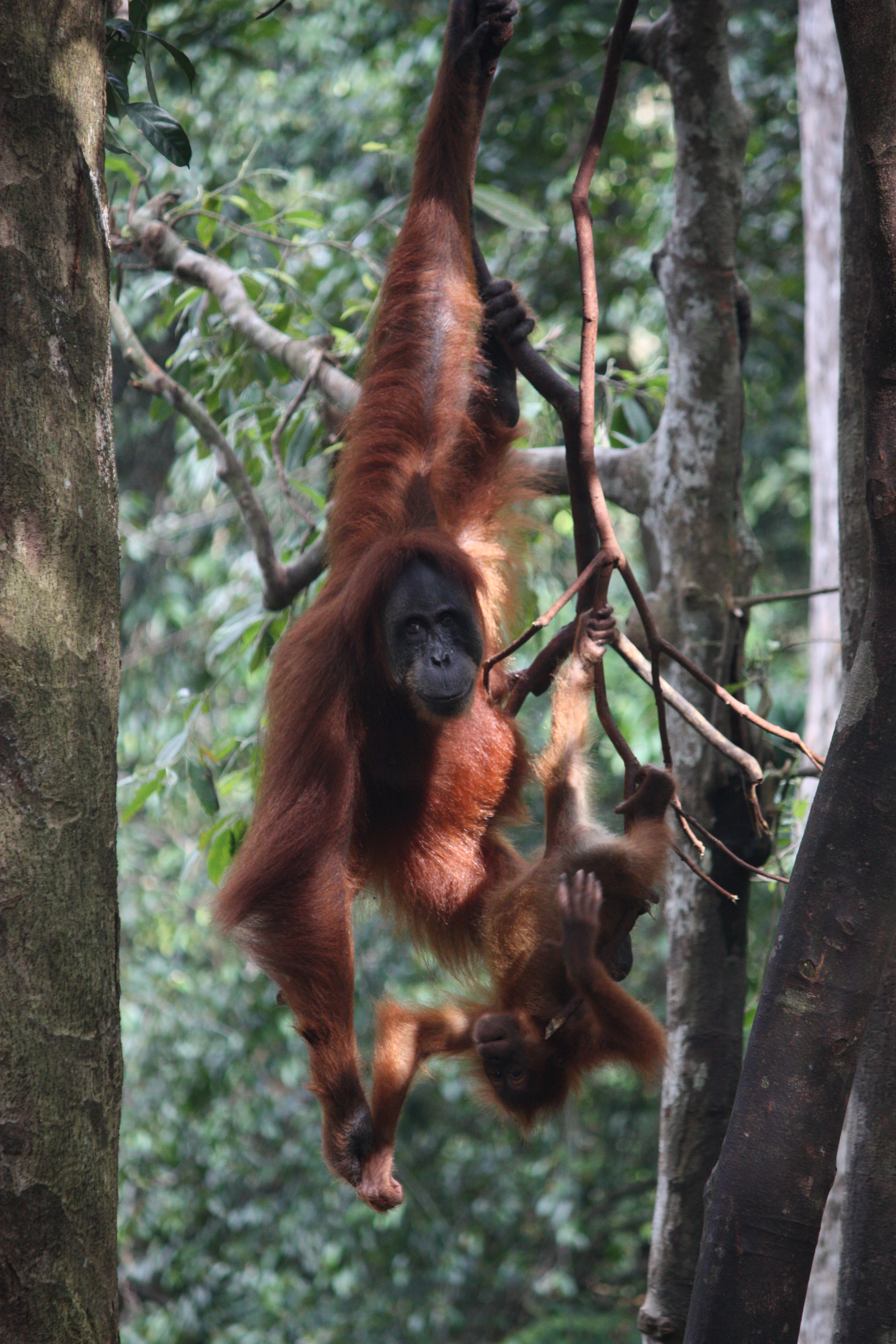 Bukit Lawang, mother and baby orangutans at the feeding platform